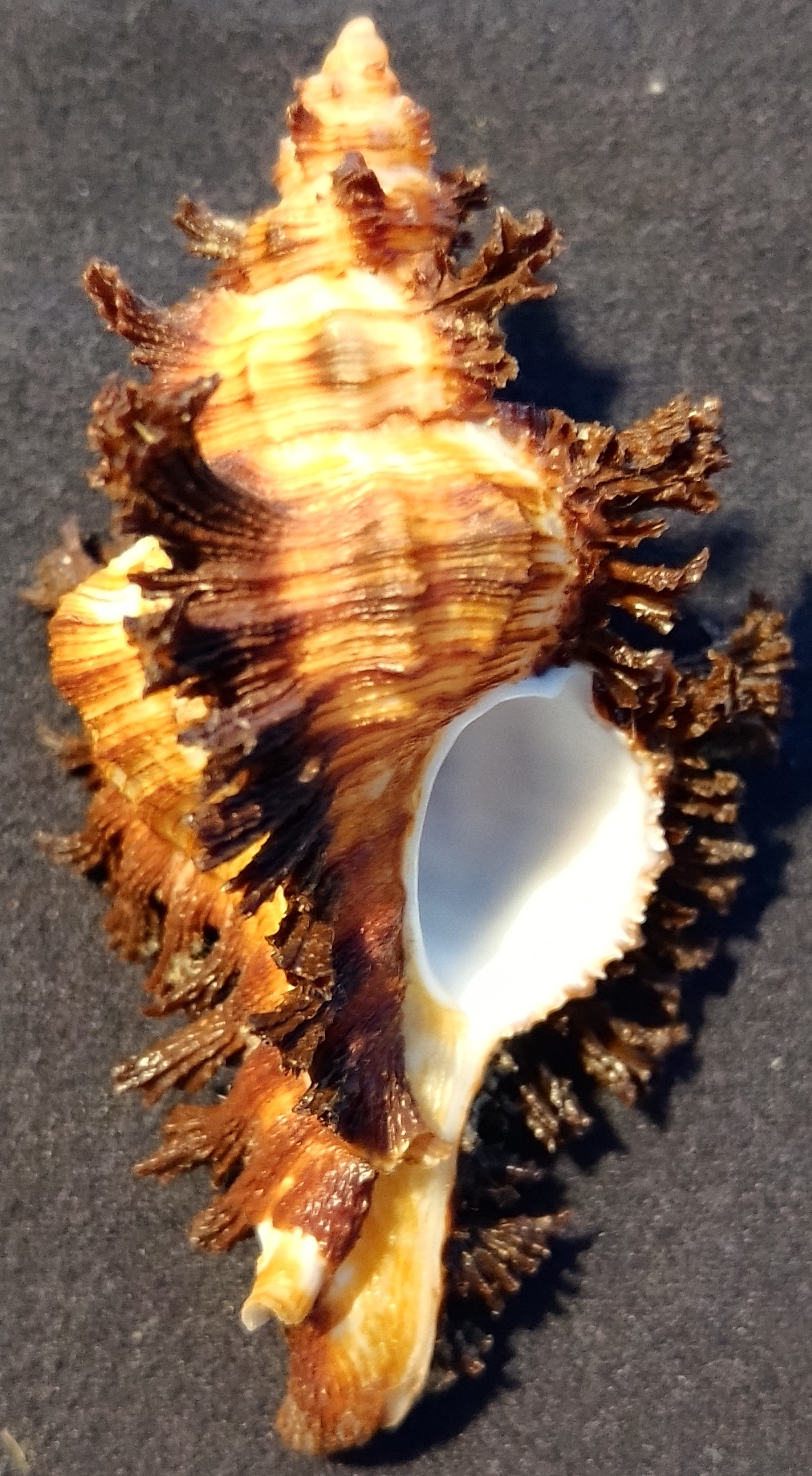 Chicoreus Brunneus Front